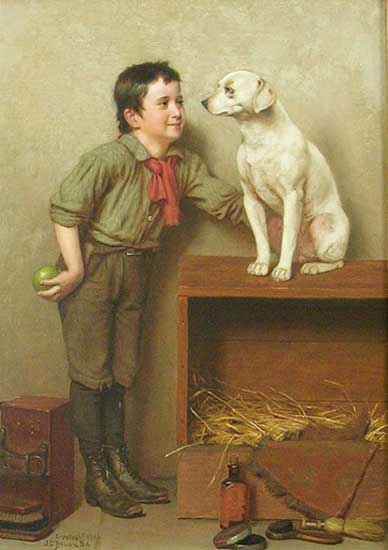 His favorite pet